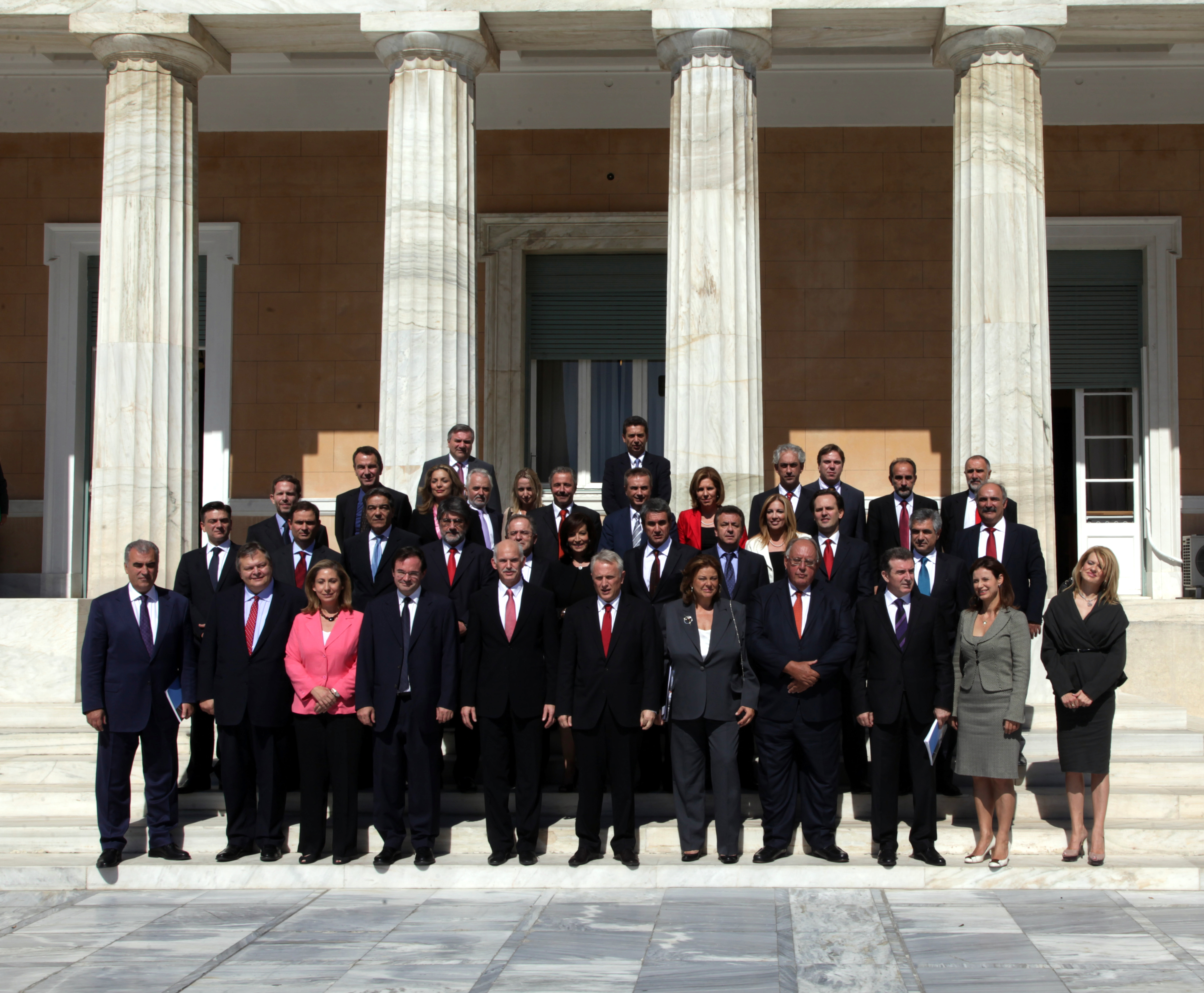 The 10th Prime Minister of Greece of the 3rd Greek Democracy, George Papandreou with full cabinet outside the Hellenic Parliament in Athens, Greece, Oct. 7, 2009.